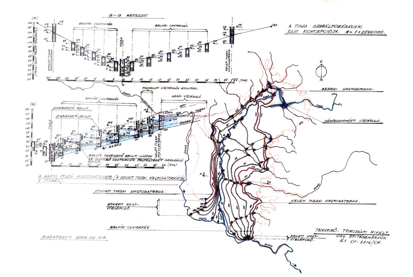 Conception of Tisza control (Hungarian reach)